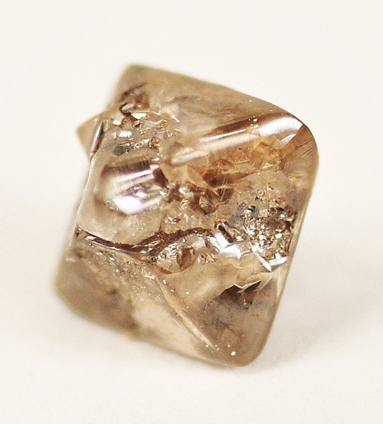 Diamond Locality: Argyle mine (Argyle AK1 pipe), Lake Argyle area, Kimberley, Western Australia, Australia Size: thumbnail, 0.9 x 0.8 x 0.8 cm Diamond 3.6 carats. Very gemmy with slightly fancy color